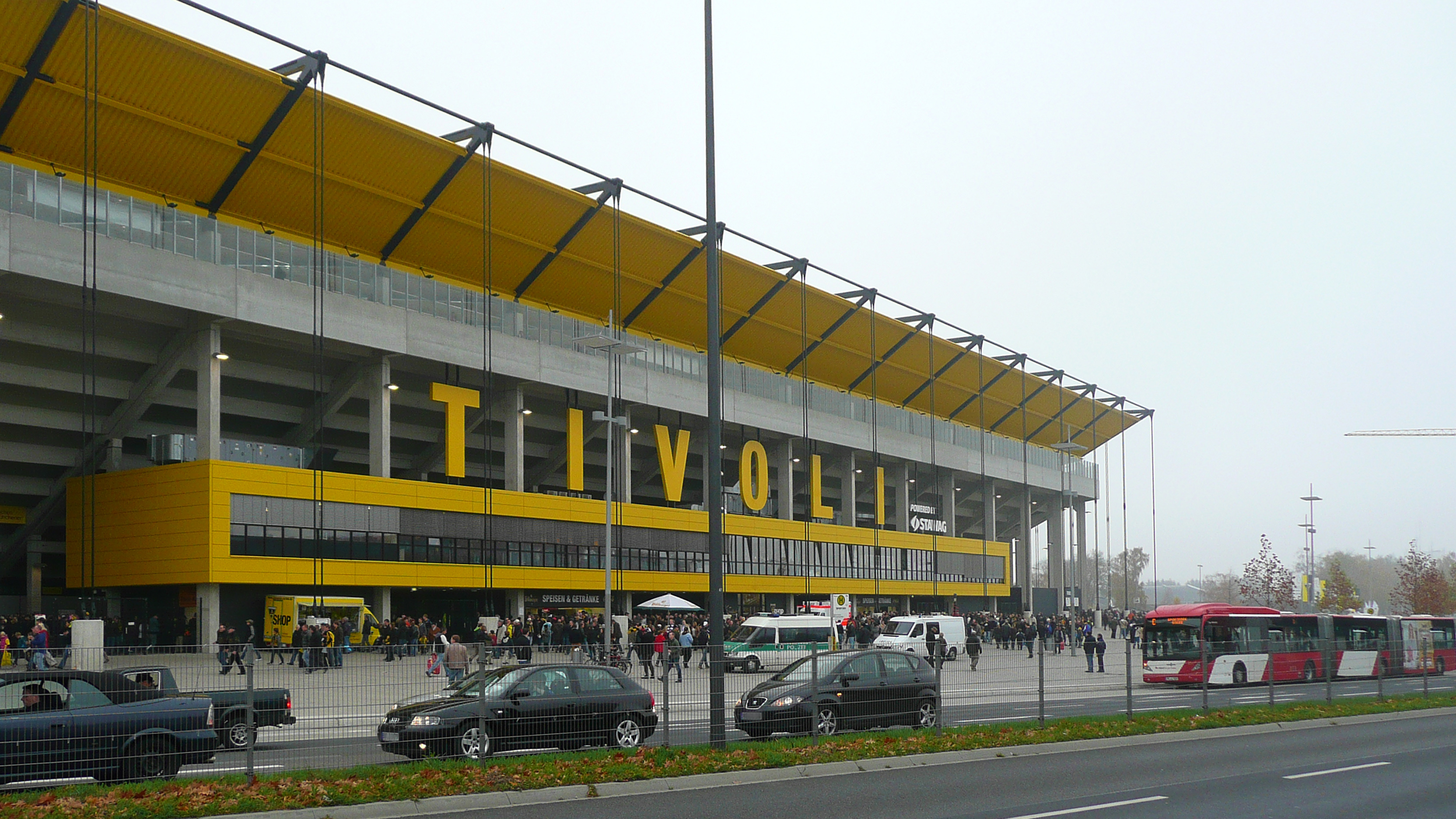 Tivoli stadium Aachen